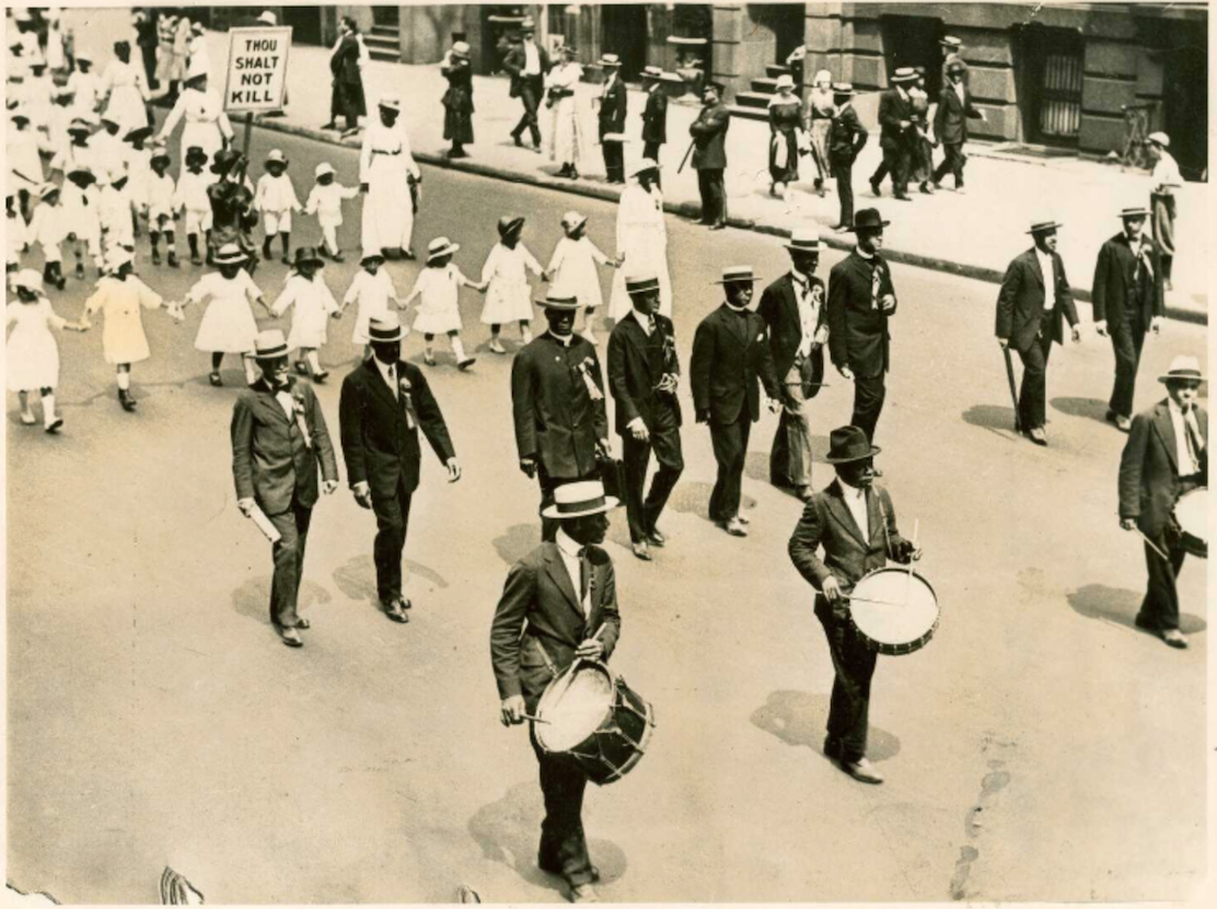 Negro Silent Protest Parade